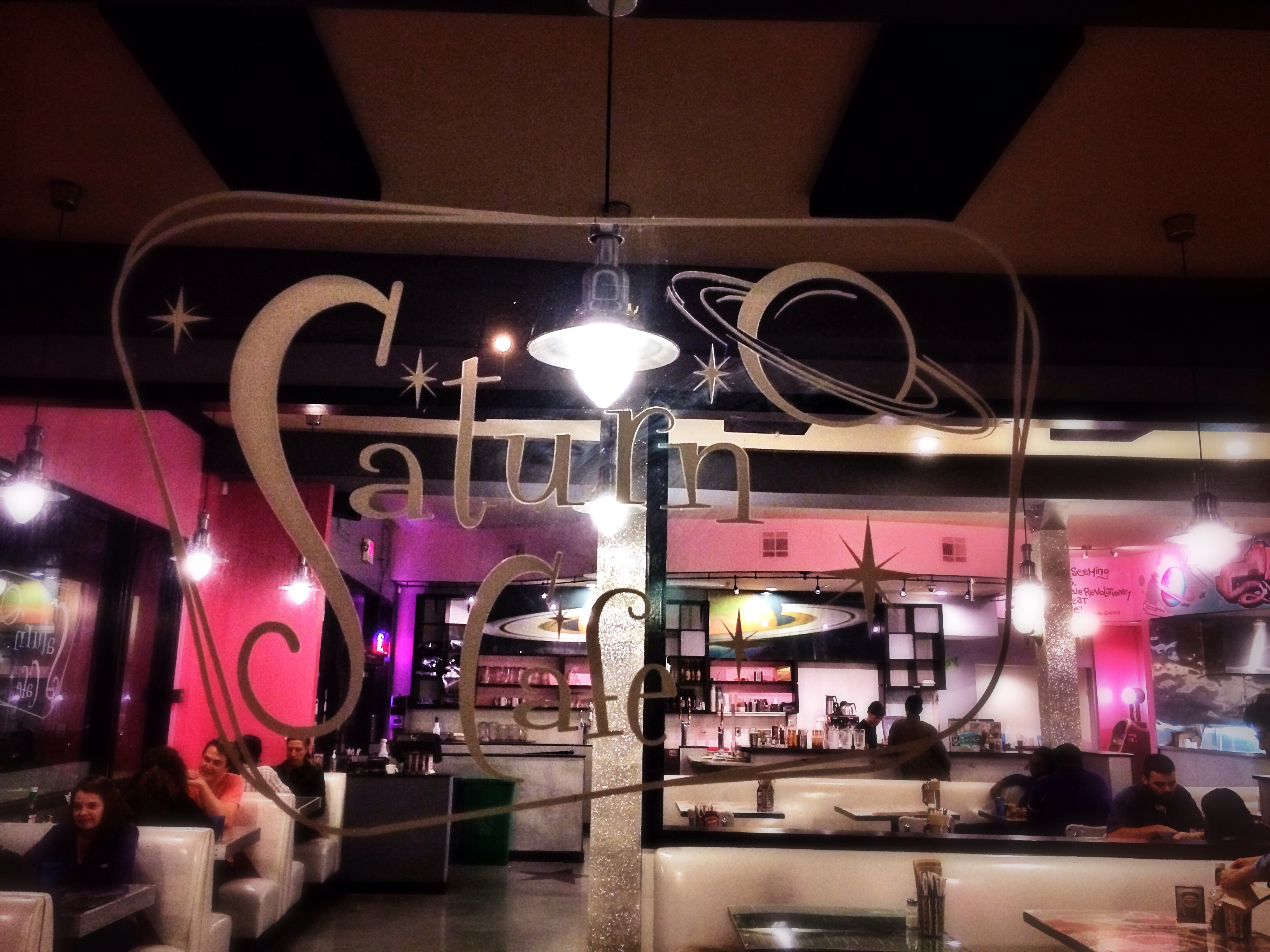 Saturn Cafe, Berkeley, California. Allston Way/Oxford Street.